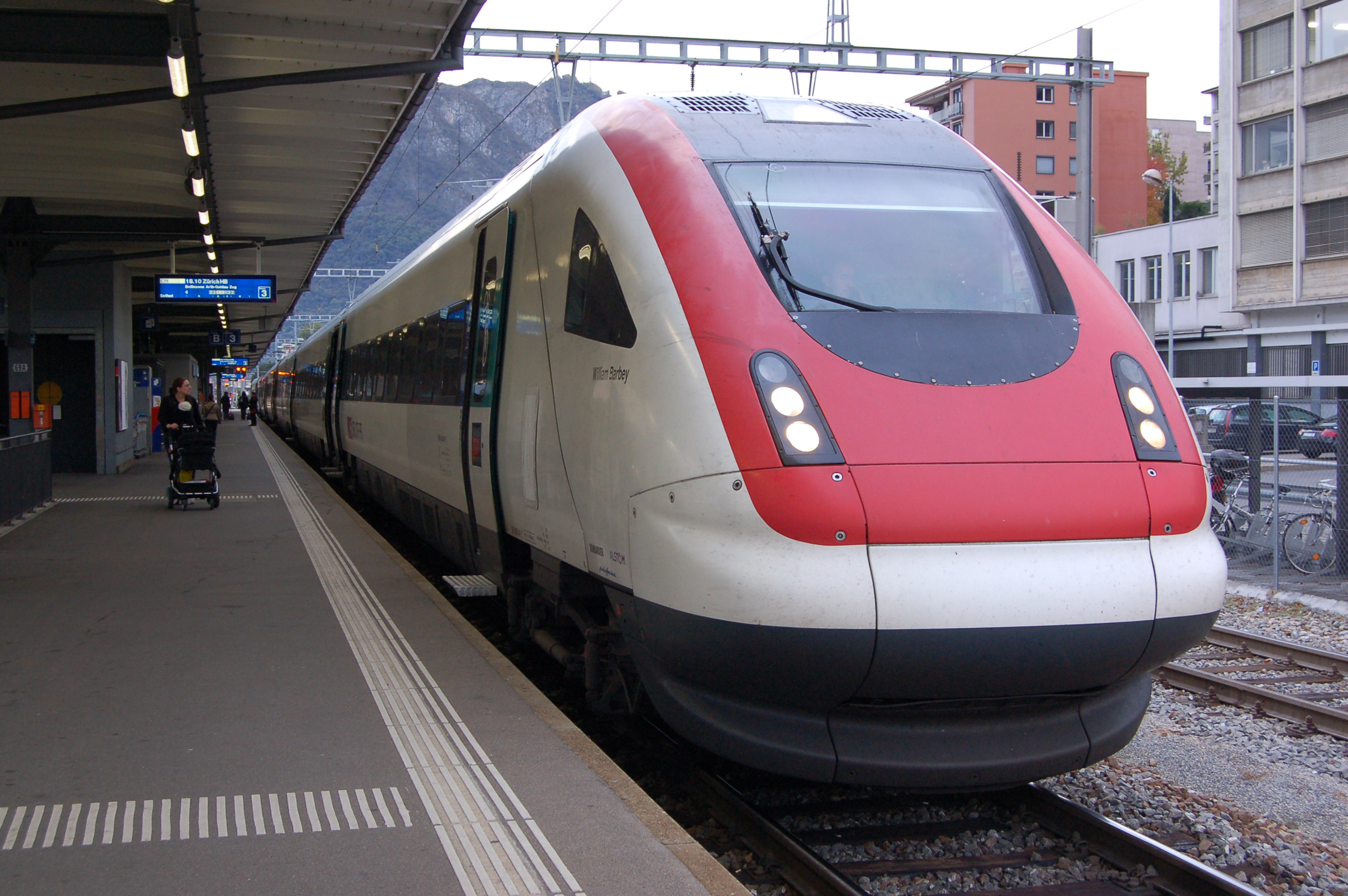 SBB-CFF-FFS InterCity Neigezug (ICN) RABDe 500 041-9 William Barbey at Lugano, Ticino.